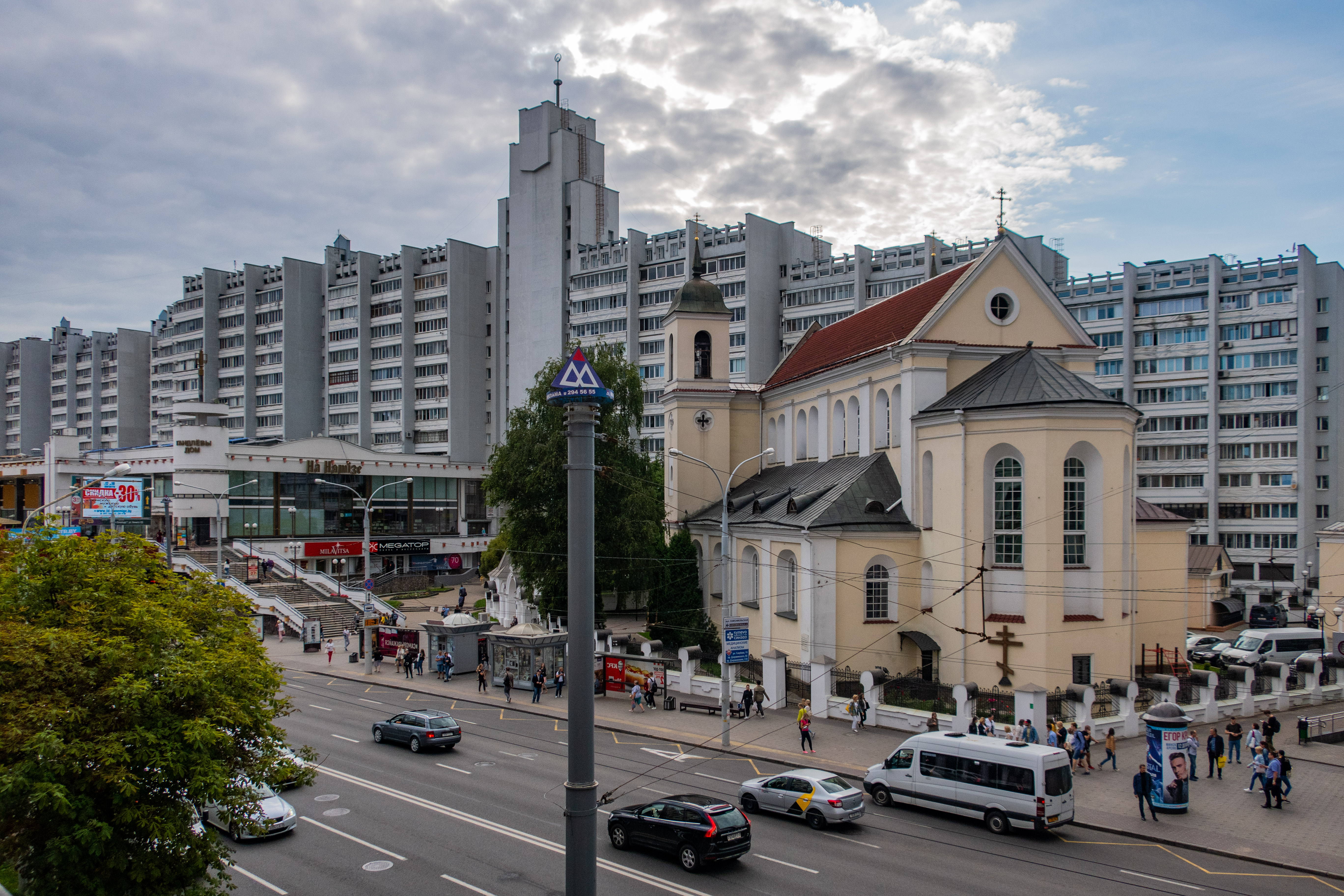 Niamiha street. Minsk, Belarus